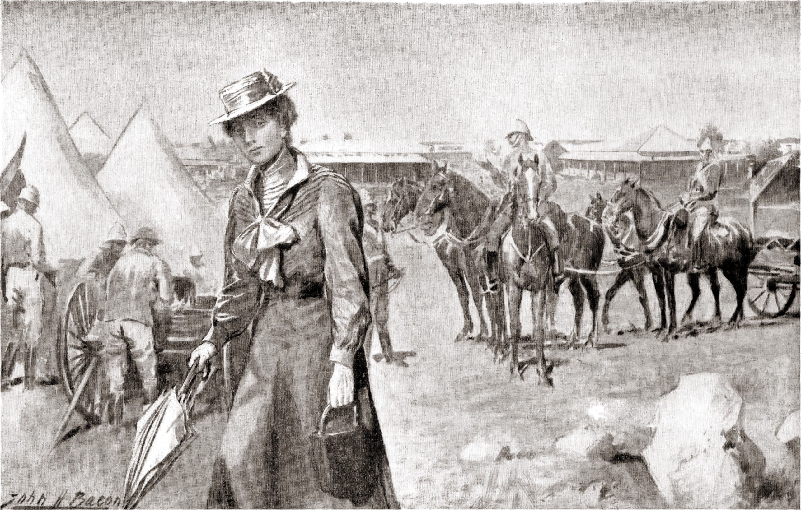 Drawing of Lady Sarah Wilson in South Africa during the Second Boer War, published in The Black and White Budget Transvaal Special No 8. Caption reads "A brave woman. Lady Sarah Wilson, who is acting both as nurse and correspondent at Mafeking".